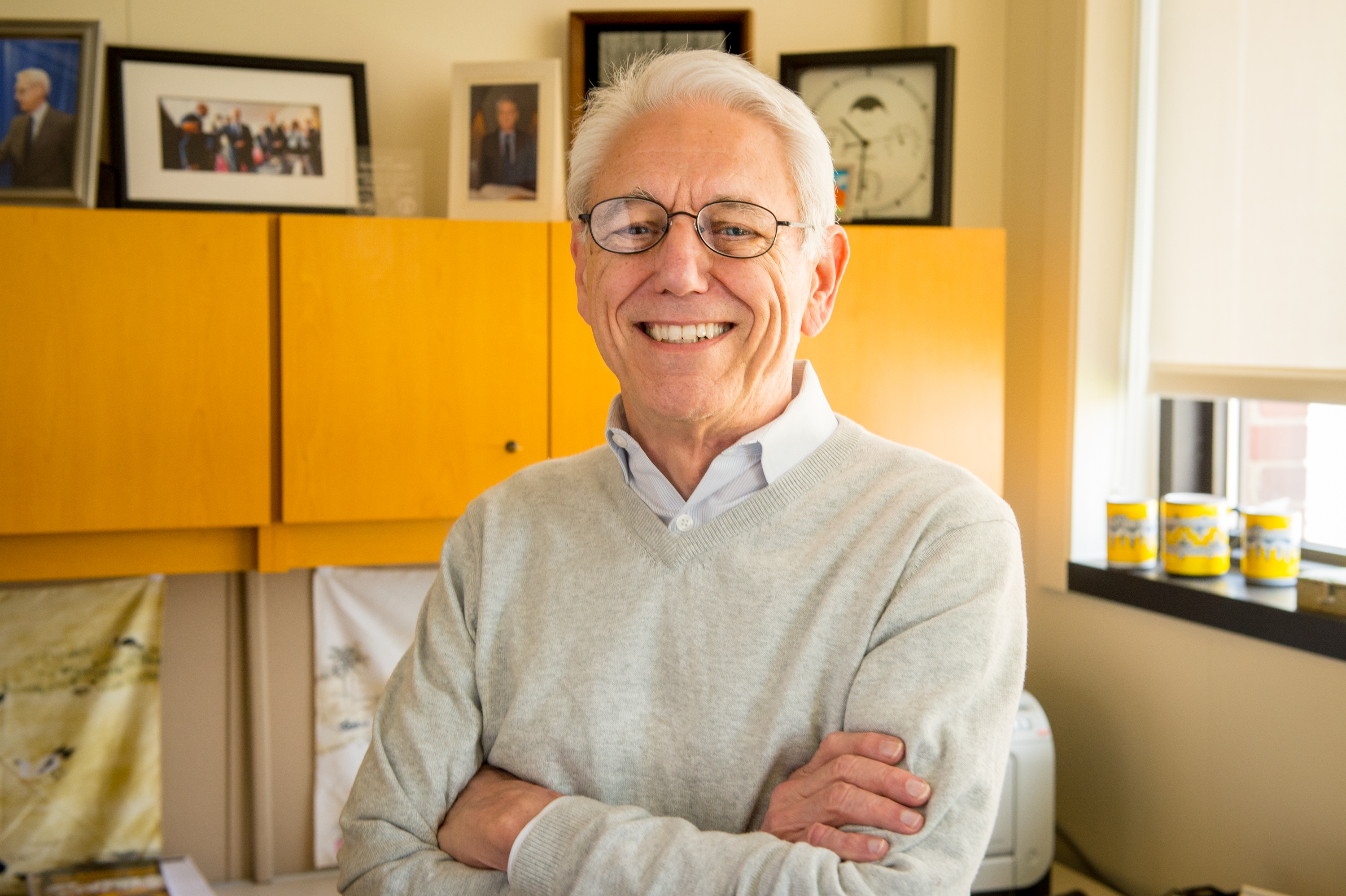 George Crabtree is a Senior Scientist and Distinguished Fellow at Argonne National Laboratory as well as Director of the Joint Center for Energy Storage Research (JCESR).